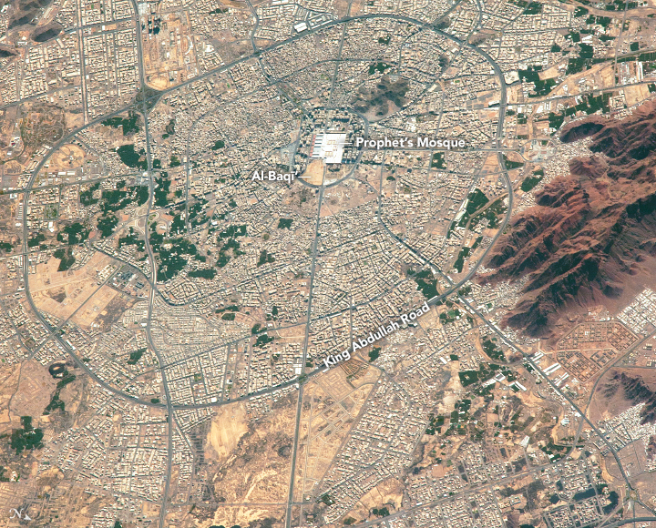 An astronaut aboard the International Space Station focused a high-resolution lens on the city of Medina (Madinah in official documents) in western Saudi Arabia. Medina is the second holiest city of Islam, and the site of the Prophet’s Mosque (Al-Masjid an-Nabawi) and the Prophet’s Tomb. The mosque, one of the largest in the world, is the focal point of the city. Immediately east of the Mosque is an area with no buildings. (Note that north is to the right in this photo.) It is the site of the Al-Baqi’ cemetery, the resting place of many of the Prophet’s relatives and companions. The cemetery used to lie on the outskirts of early Medina. Fourteen centuries ago, the city was only about the size of the modern mosque complex. Although people of many religions and nationalities live in the city, the core haram zone (meaning “sanctuary” or “holy shrine”), generally within King Abdullah Road, is only open to people of Muslim faith. (For scale, the diameter of the King Abdullah ring road is about 7 to 9 kilometers or 4.5 to 5.5 miles). Increasing numbers of expatriate workers—from other Arab countries, from South Asia, and from the Philippines—now live in Medina. The Saudi Arabian government has begun a major new building project known as Knowledge Economic City just east of the closed zone (lower center of the image). This partly open land (visible on either side of King Abdul Aziz Branch Road) is being set aside for new residential and commercial development, especially high-tech, as well as hotels, museums, and educational facilities for non-Muslim tourists.